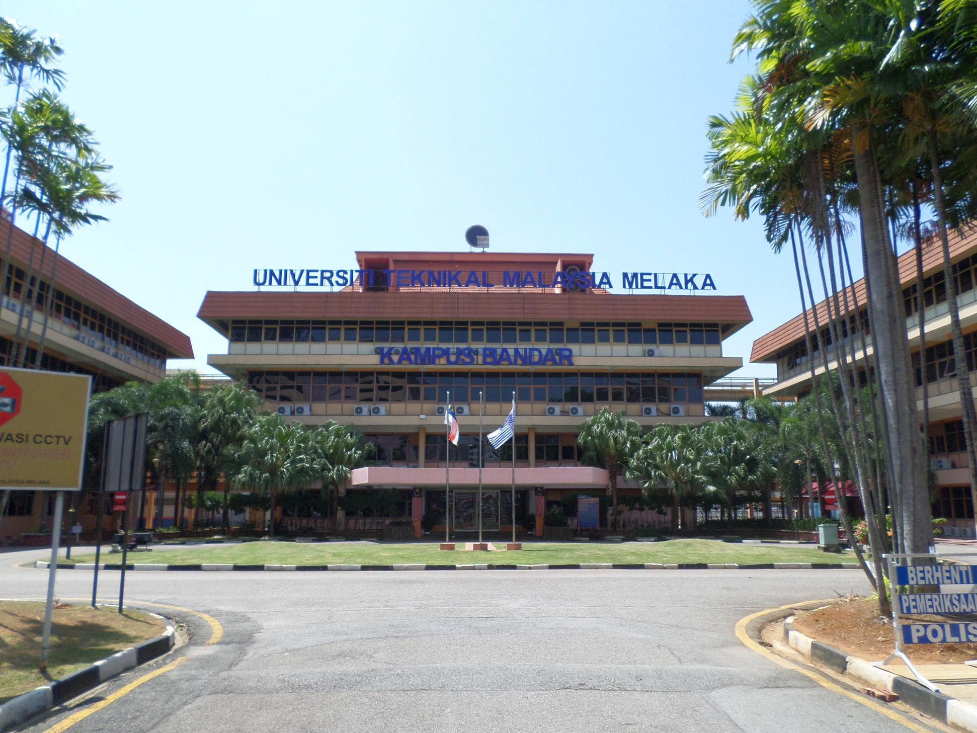 City Campus, Technical University of Malaysia Melaka, Melaka City, Central Melaka, Melaka, MalaysiaBahasa Melayu: Kampus Bandar, Universiti Teknikal Malaysia Melaka, Bandaraya Melaka, Melaka Tengah, Melaka, Malaysia